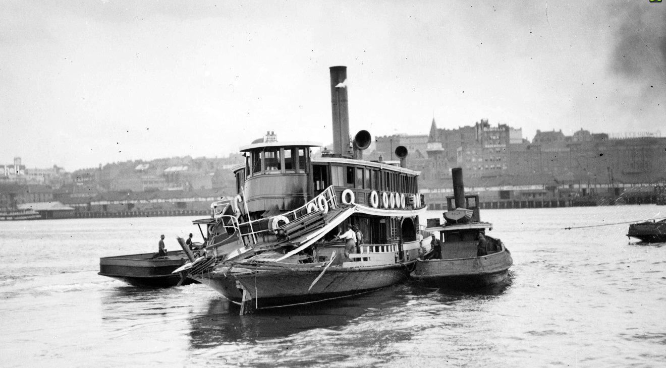 Sydney ferry KAREELA after collision with wharf at Sydney Cove 28 August 1924. 3 passengers died including an elderly woman and a three week old boy. Ferry smash on Sydney Harbour, ca. 1930 (Fairfax archive of glass plate negatives)[1], 1924, nla.obj-163108998, 1 negative : glass, b&w ; 12.0 x 16.3 cm.